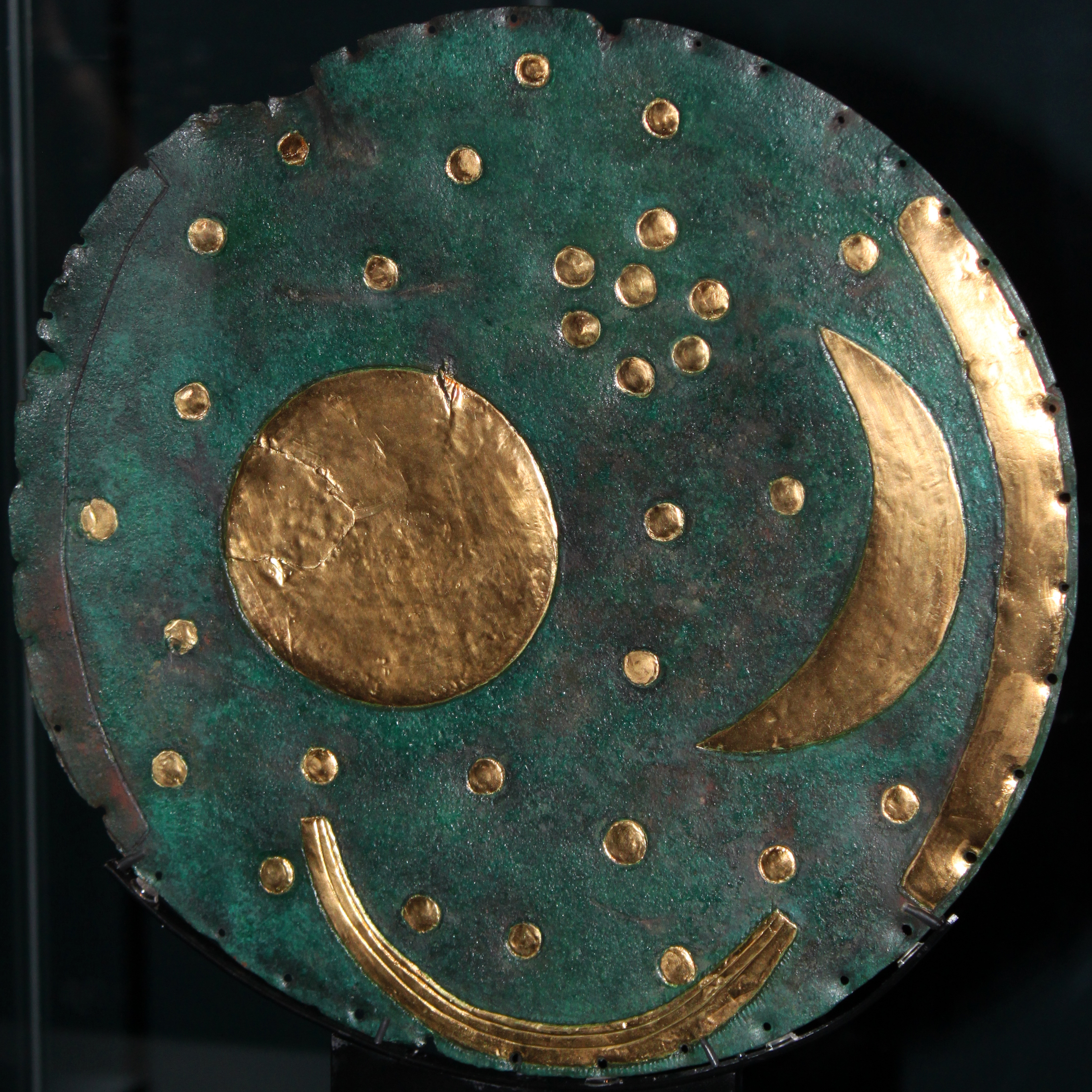 The Nebra Sky disk; Mittelberg near Nebra (Germany), ca. 1600 BC.; Special exhibition "Beyond the Horizon - Space and Knowledge in the Old World cultures" at the Pergamon Museum (22.06 -. 30.09.2012)